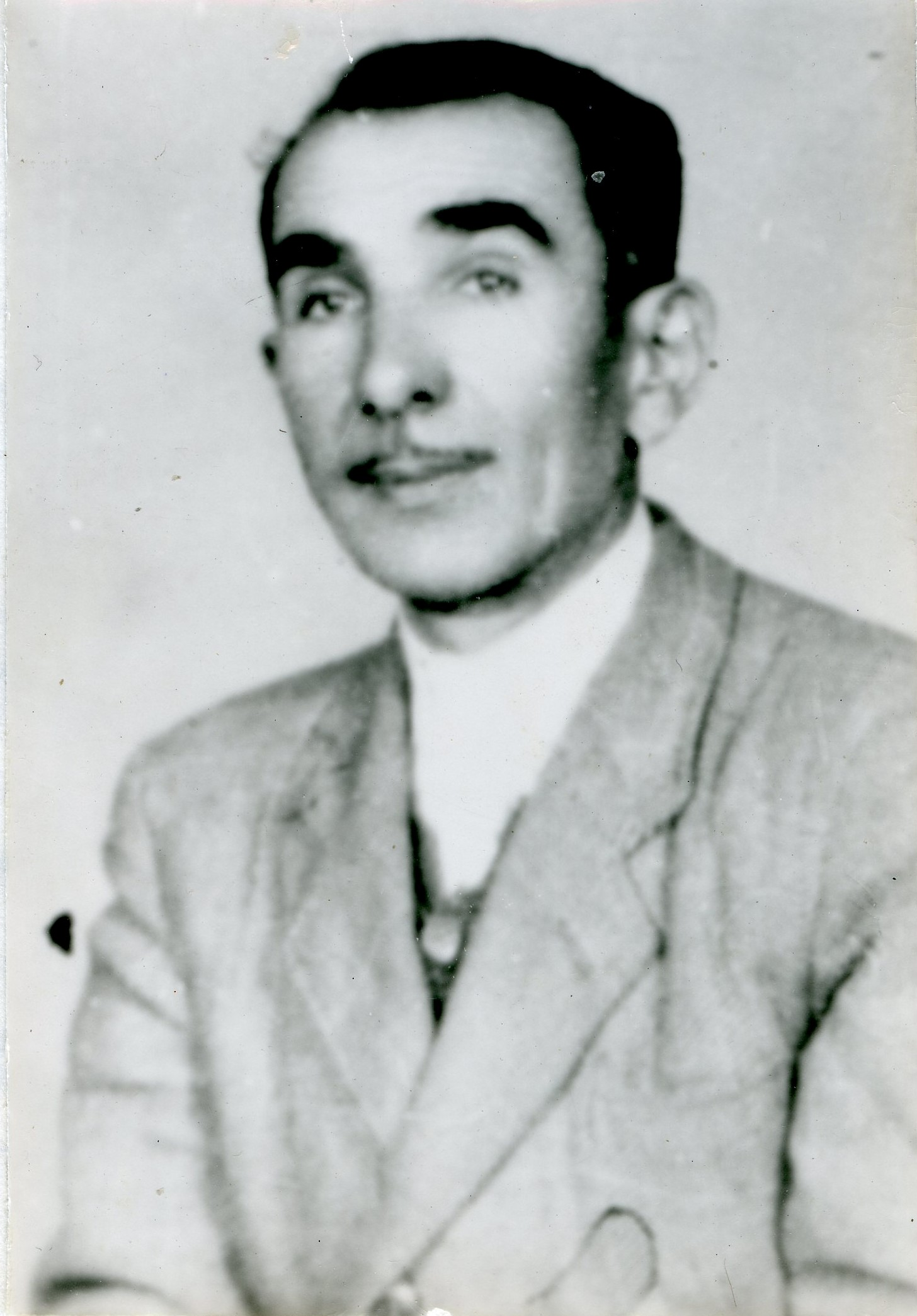 Pavle Vijatov, volunteer from Vojvodina (Serbia) in Spanish Civil War (1936-1939) Srpski (latinica): Pavle Vijatov, dobrovoljac iz Vojvodine u Španskom građanskom ratu (1936-1939)